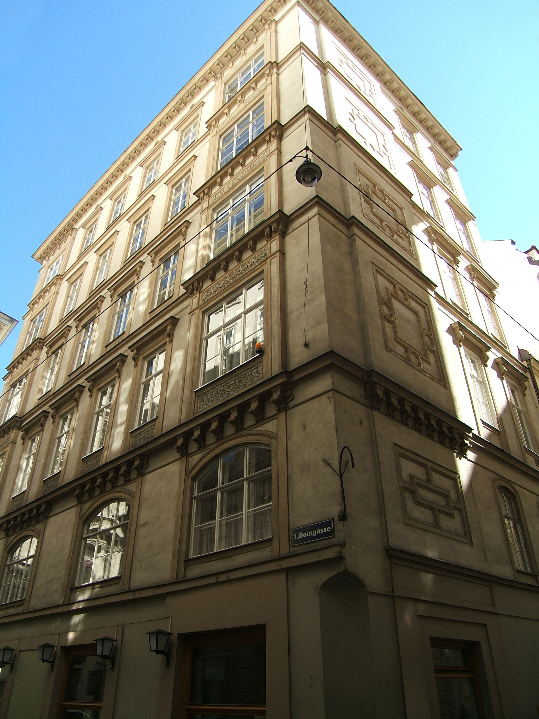 Tenement in the 1st district of Vienna, Domgasse 1